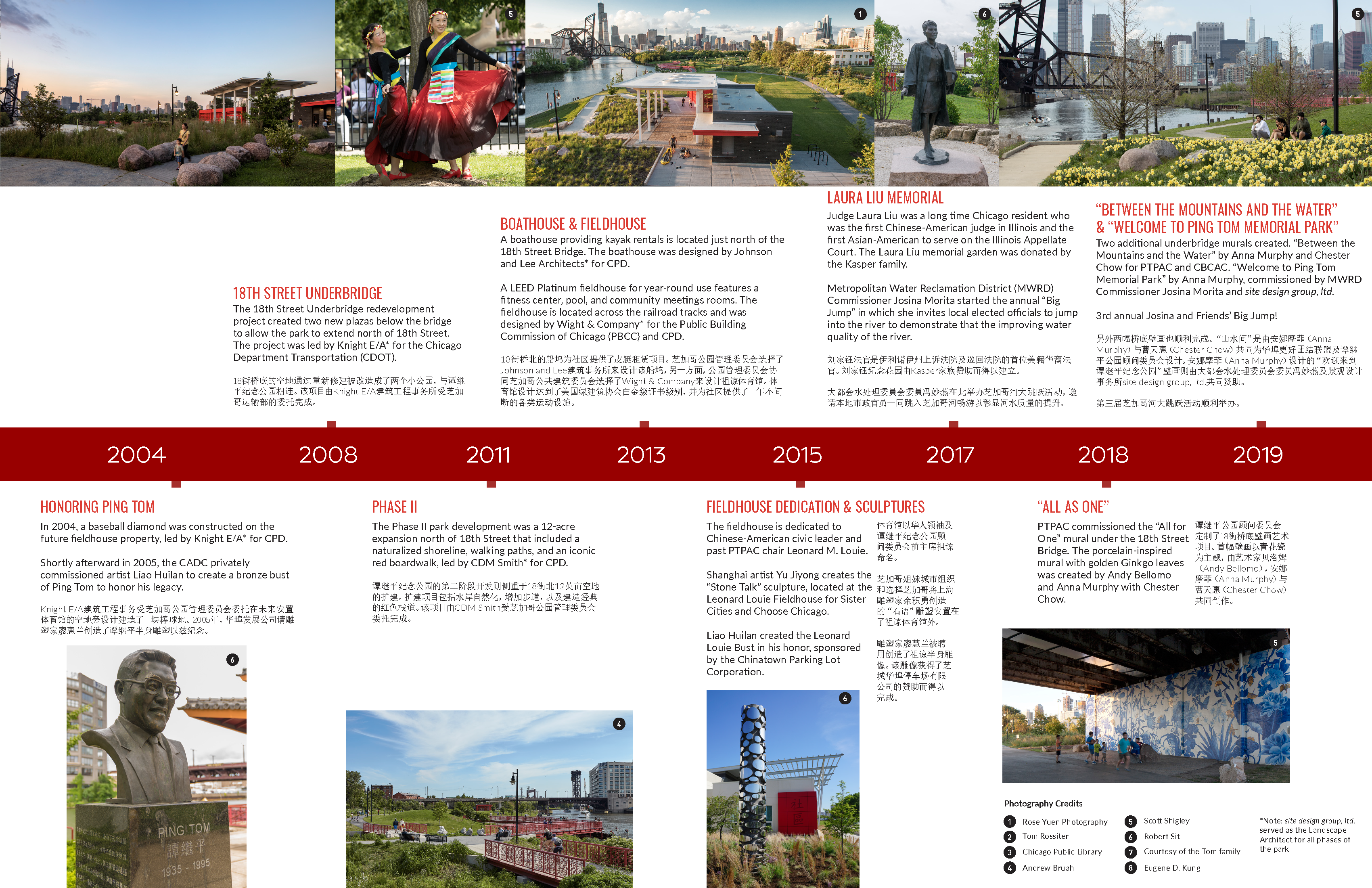 Timeline for the development of Ping Tom Memorial Park in Chicago, Illinois (1999-2019)